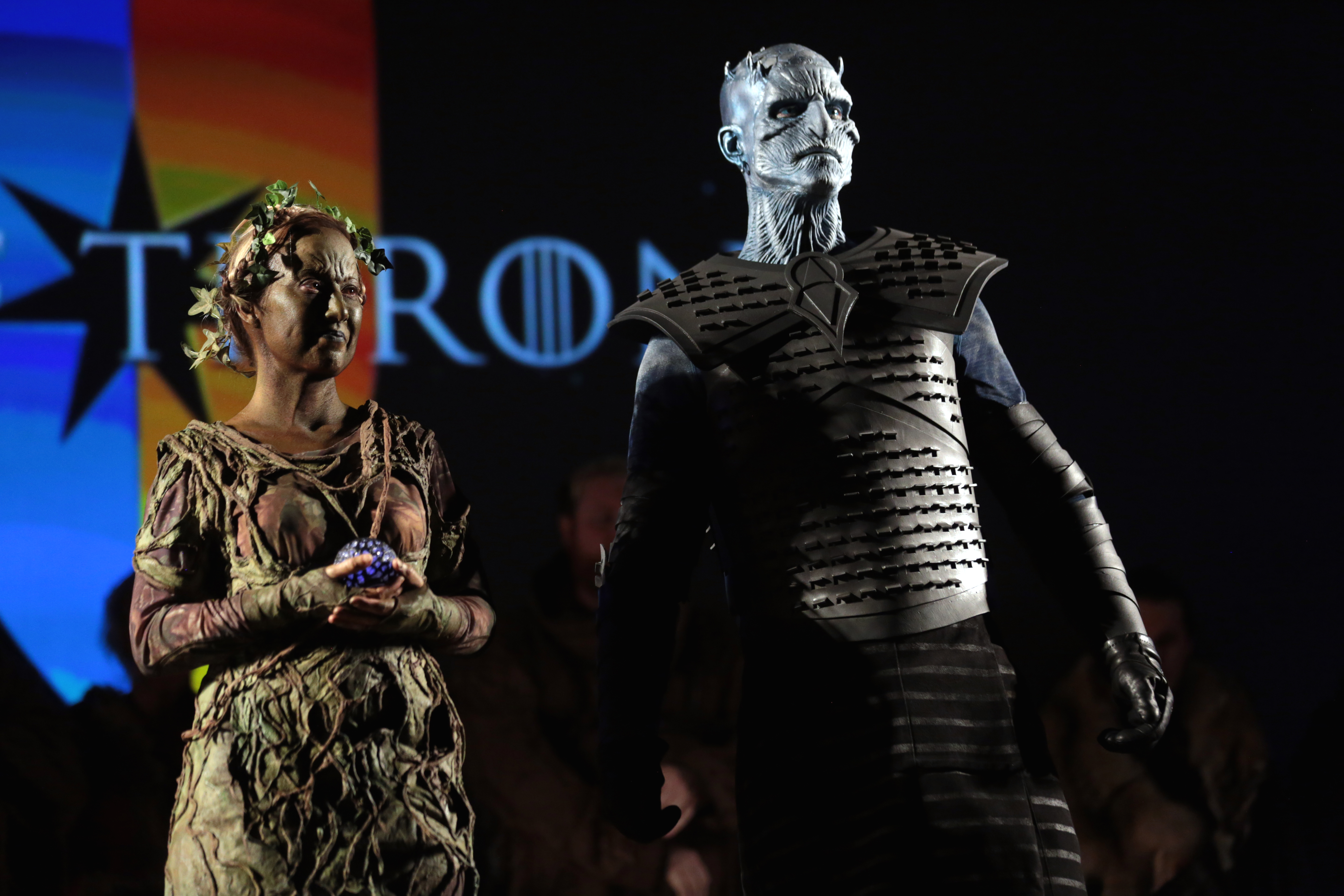 Children of the Forest and Night King cosplayers at the 2017 Con of Thrones at the Gaylord Opryland Resort & Convention Center in Nashville, Tennessee.